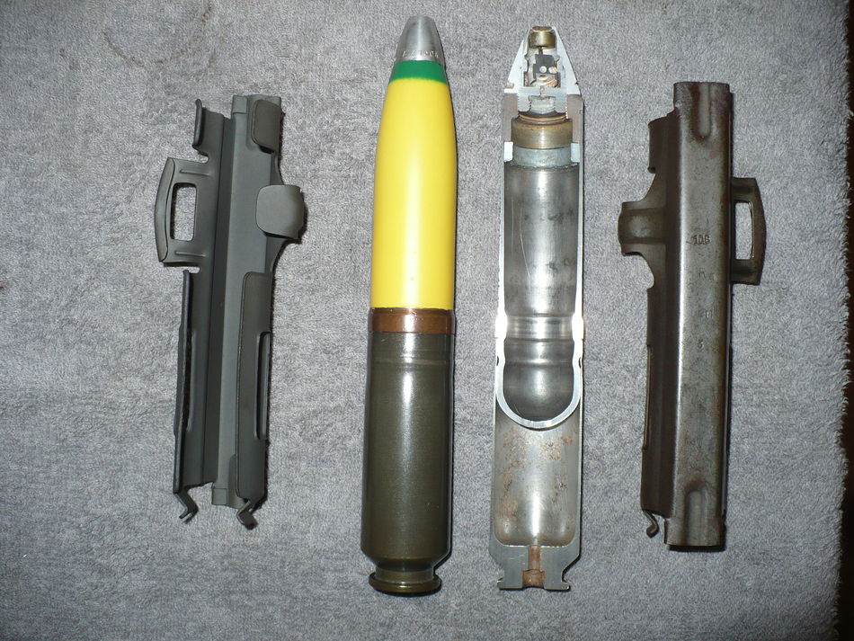 30mm ammunition for the Mk 108 German Machine Cannon, including links. The yellow main body identifies this as a high explosive round, the green band as having a self-destructive fuse. The internal structure may identify it as Mine round (thin-walled high-capacity HE round).